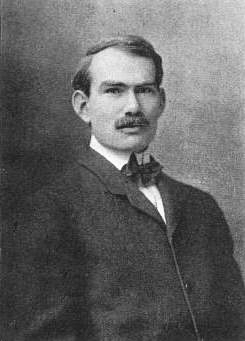 Lee De Forest, published in the February 1904 issue of The Electrical Age.